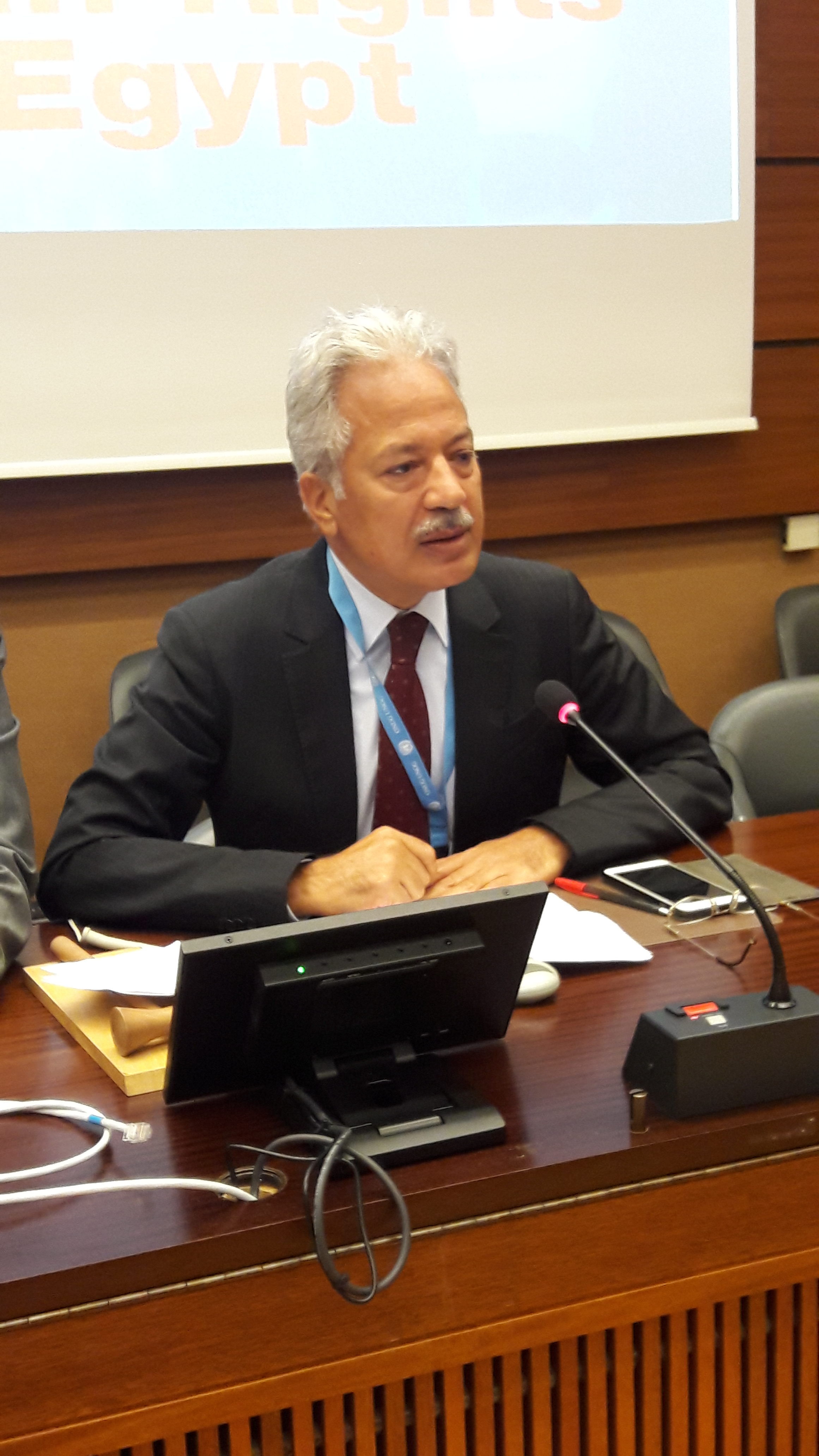 Mr. Shiha's participation at one of EOHR's side events at the UN Human Rights Council in Geneva